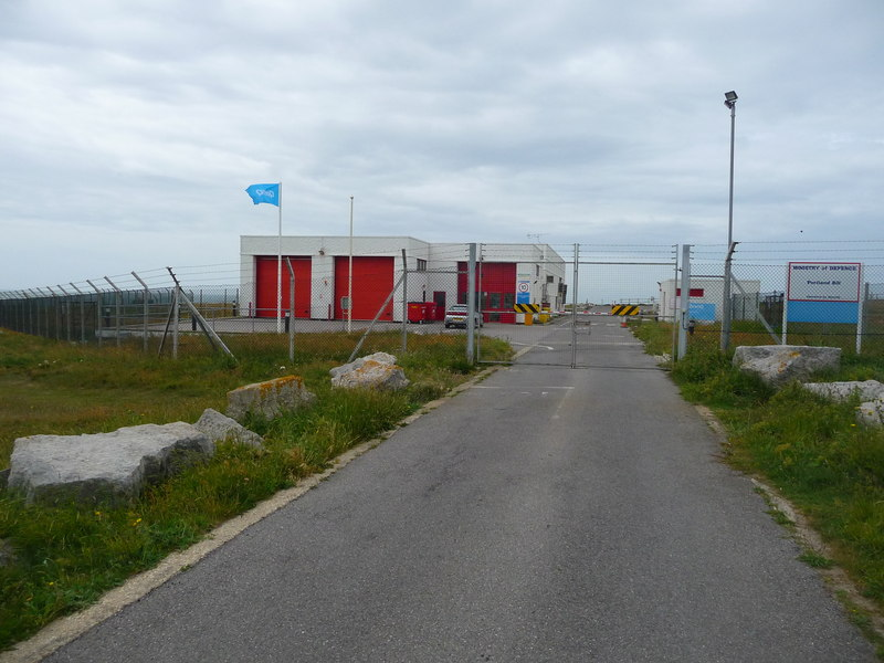 Portland Bill Ministry of Defence Magnetic Range Entrance, Dorset